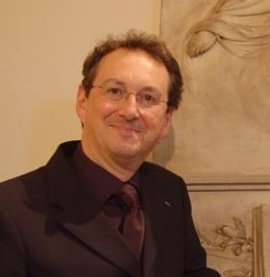 Peter Phillips in St Andrew by the Wardrobe 2006